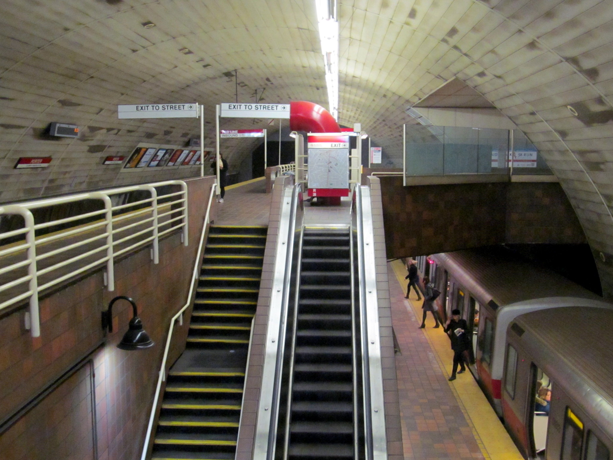 An outbound Red Line train at Porter viewed from the inbound platform